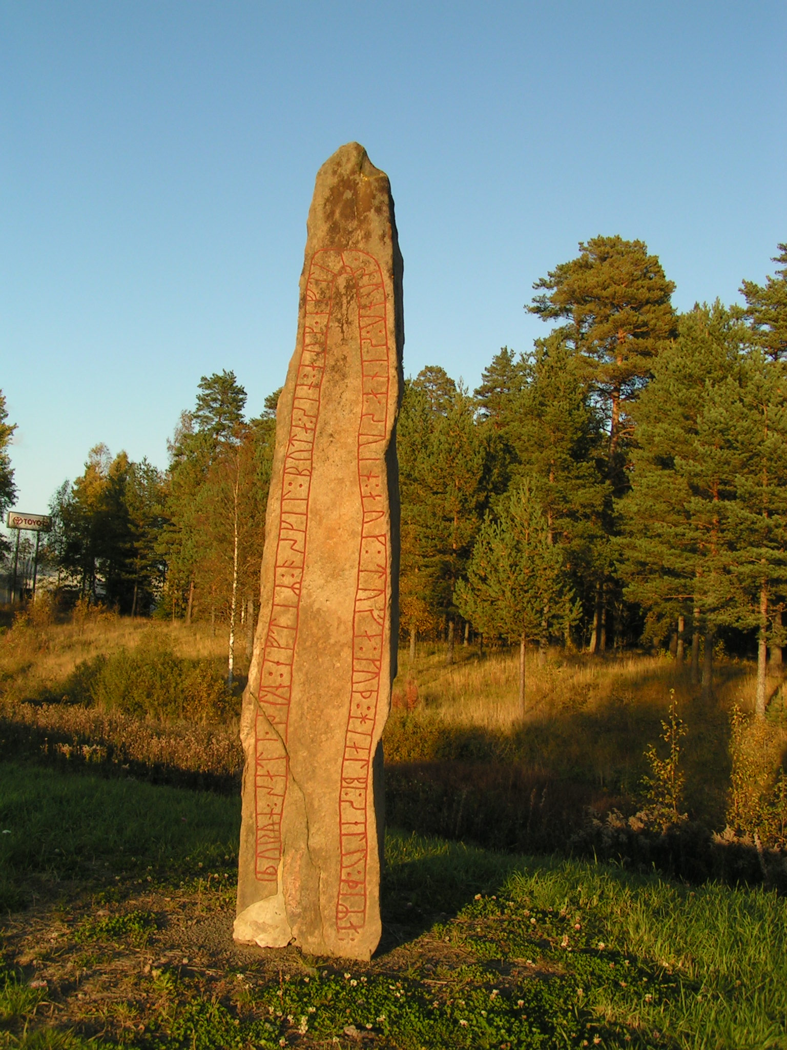 Rune inscription Sm 64, at Västhorja in Värnamo parish, Småland